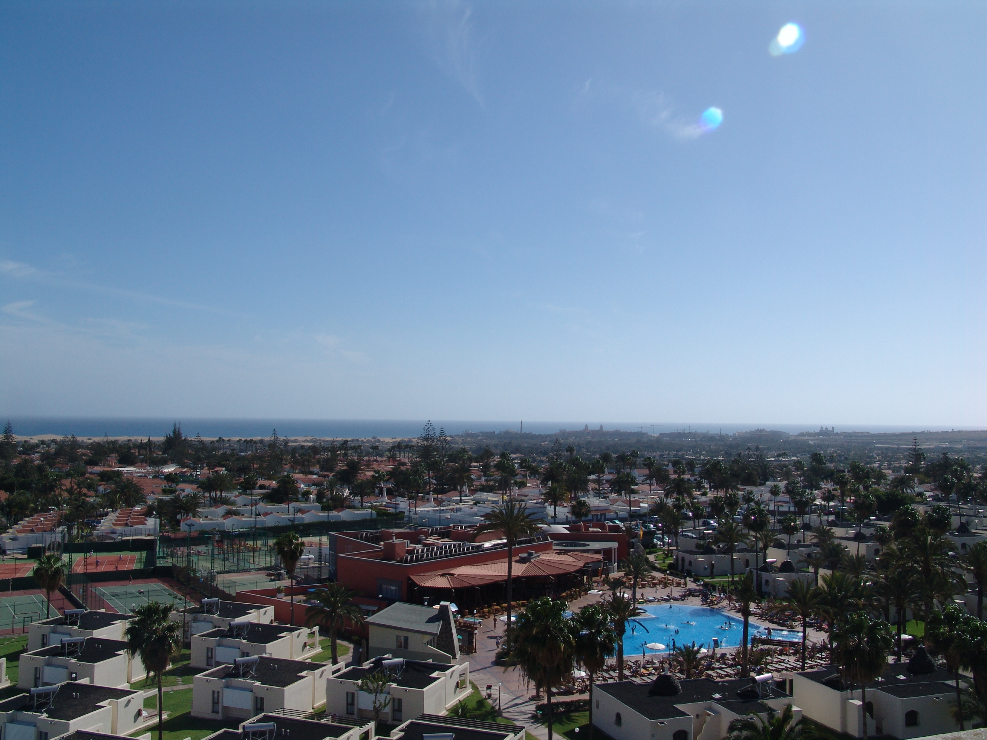 Hotel view Playa del Ingles, view on the Maspalomas dunes, lighthouse El Faro